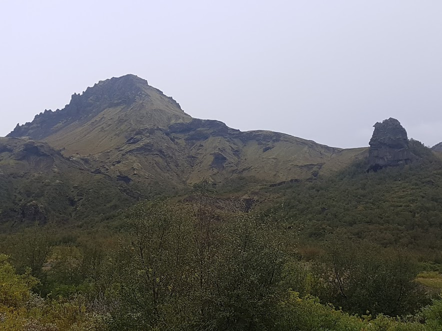 Útigönguhöfði